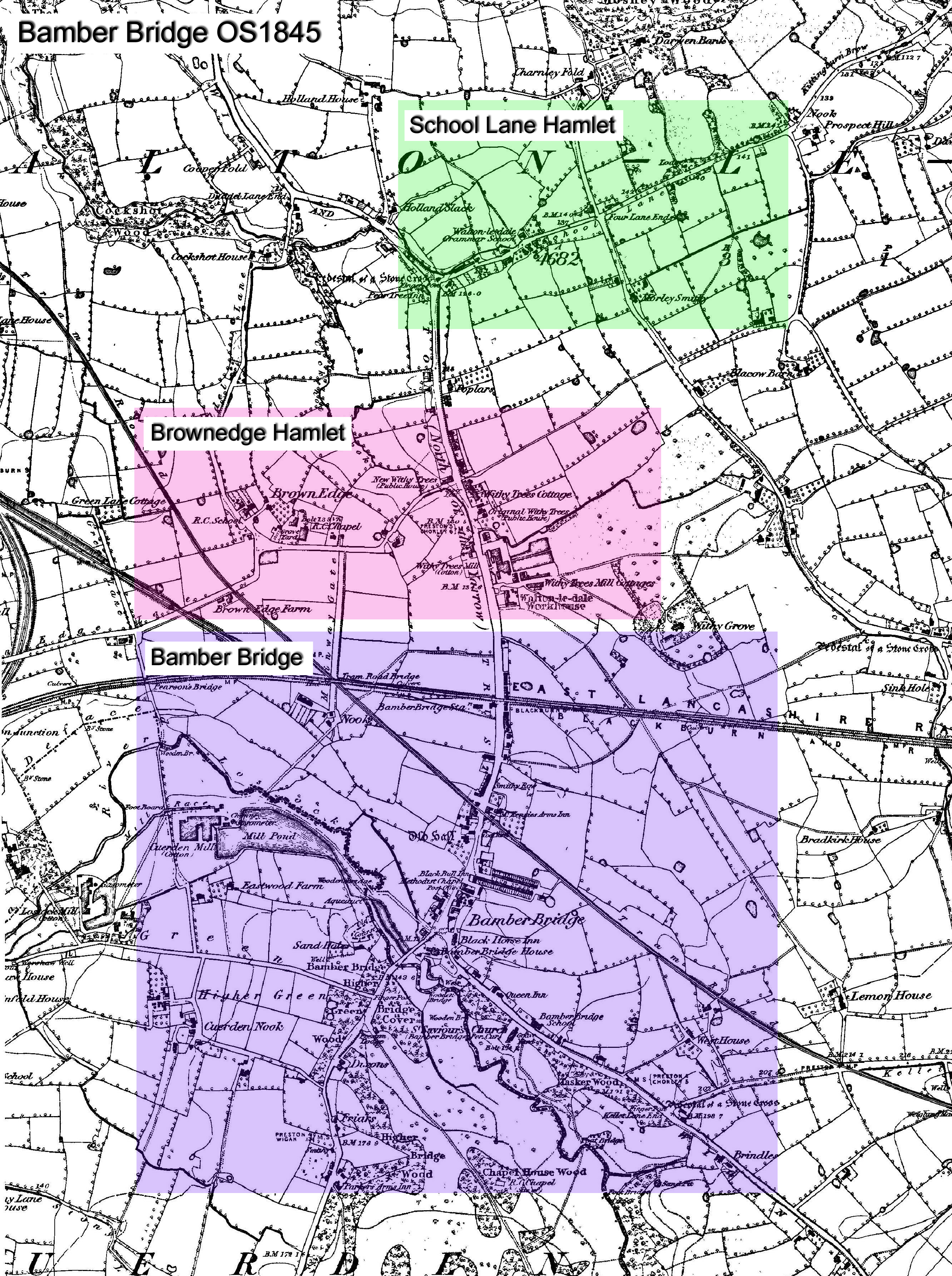 Ordnance Survey Map of Bamber Bridge, 1845. Shows the main area of Bamber Bridge together with the Hamlets of Brownedge and School Lane that it was later to absorb. The image is an amalgam of three images from together with descriptive filters inserted by me. These are intended as indicative only. Image produced from the service with permission of Landmark Information Group Ltd. and Ordnance Survey. Charlie odd [1] 14:06, 22 April 2007 (UTC)